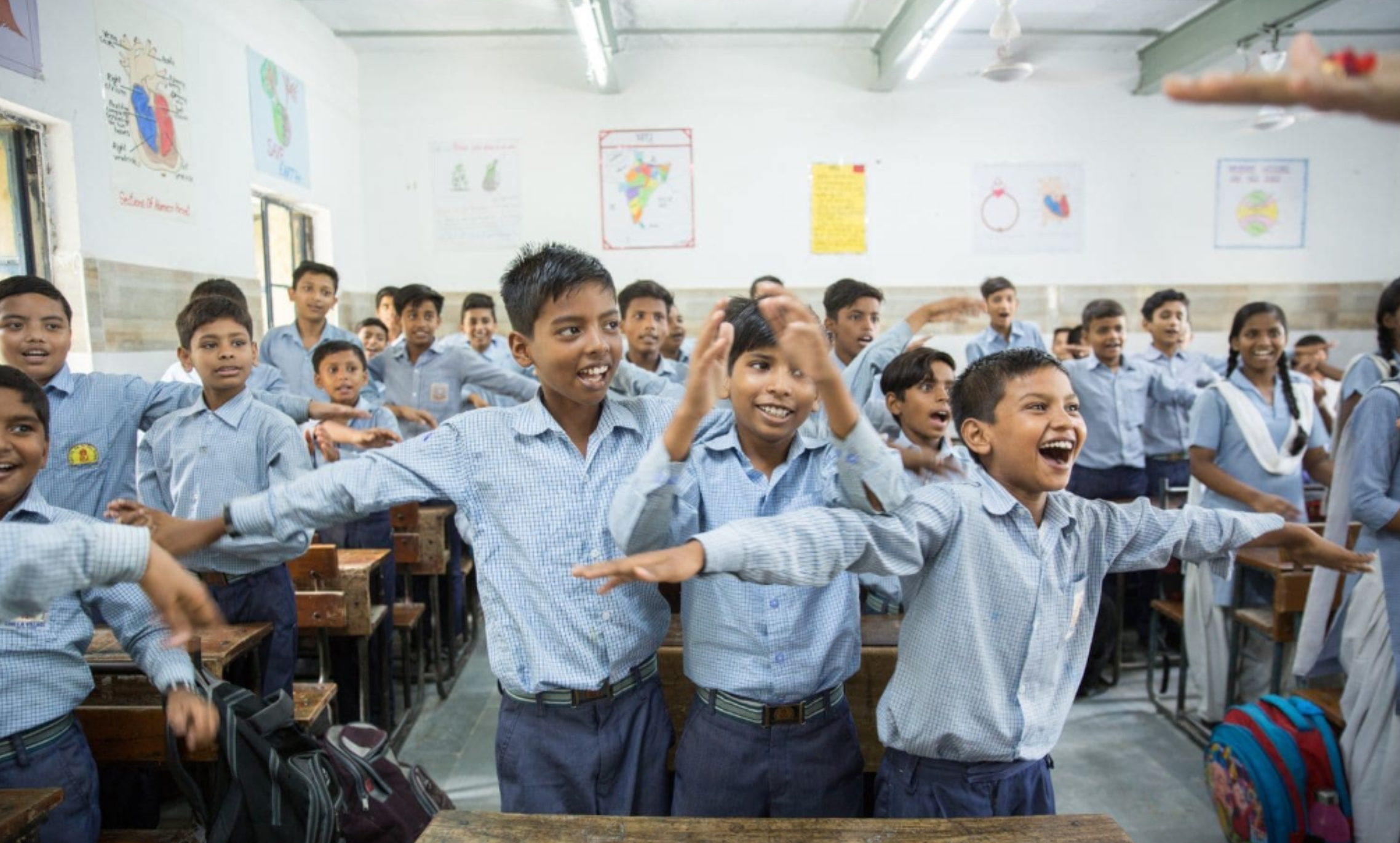 Activity during a Happiness Class, part of the Happiness Curriculum, in government school run by the Government of Delhi.